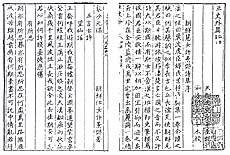 Nalsulheon Heo's poet book Chwesawonchang